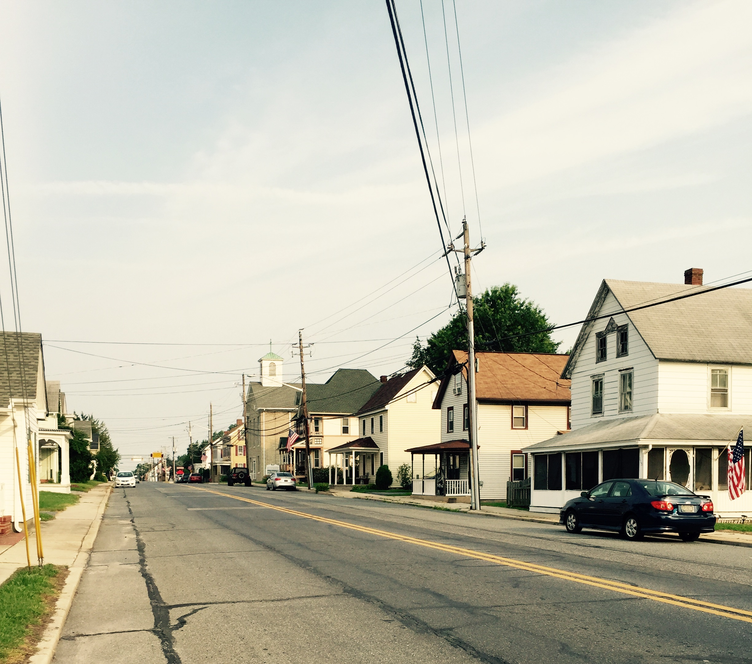 This is downtown Felton, Delaware, United States. I am standing on E. Main St. looking East with Felton United Methodist Church mid-way on the right. Main Street is part of Delaware State Route 12. The Felton Historic District is boundary in the right side of the street but not the left.